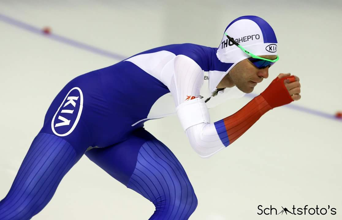 Evgeny Seryaev